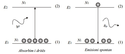 Absorbimi dhe Emetimi i Fotoneve.